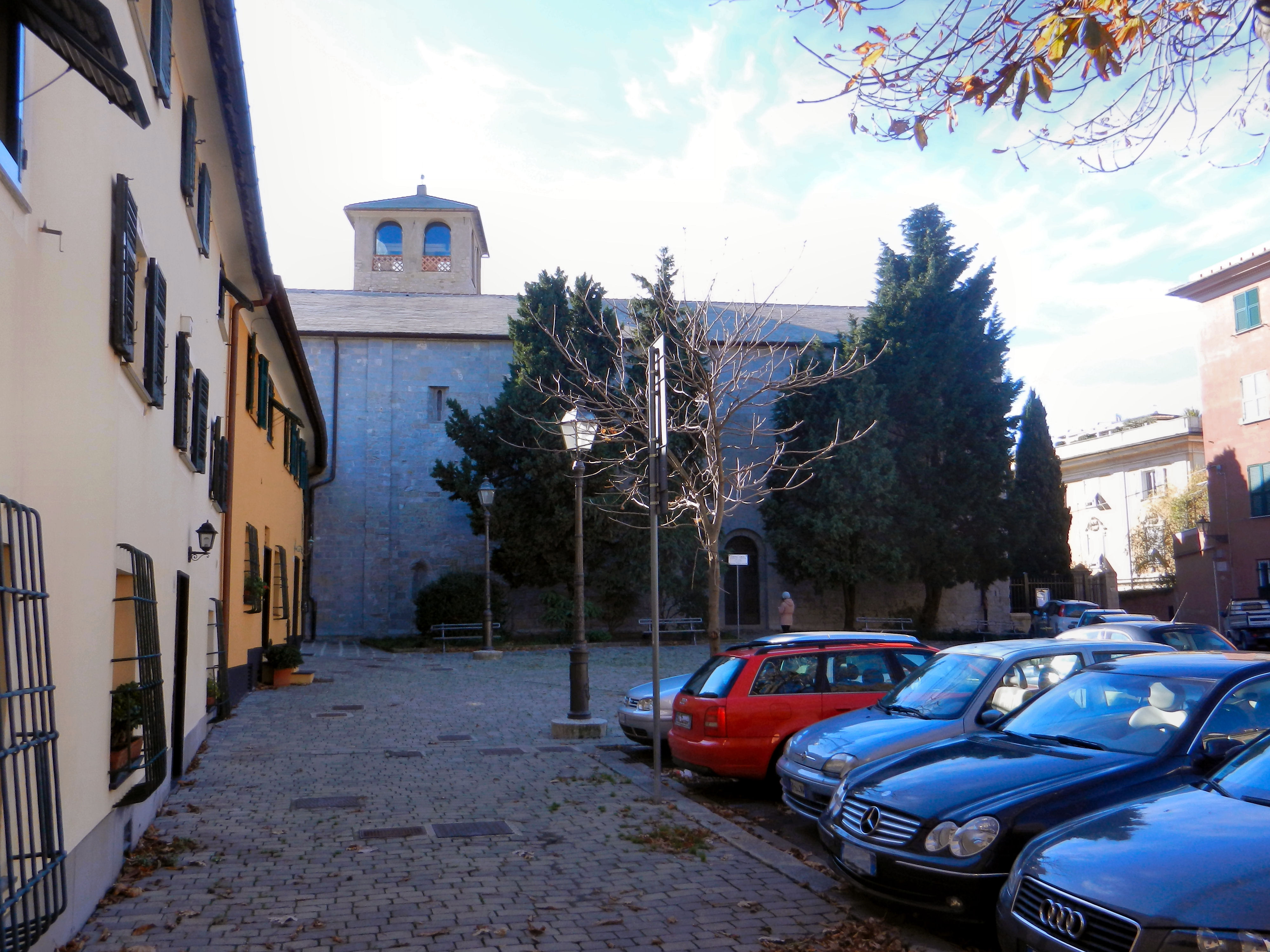 Genoa, quarter of Albaro, Leopardi Square and church of Santa Maria del Prato